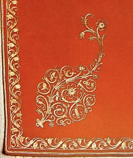 Detail of exquisite gold embroidery on the gognots (apron) of Armenian bridal dress from Akhaltzkha (19th c.)